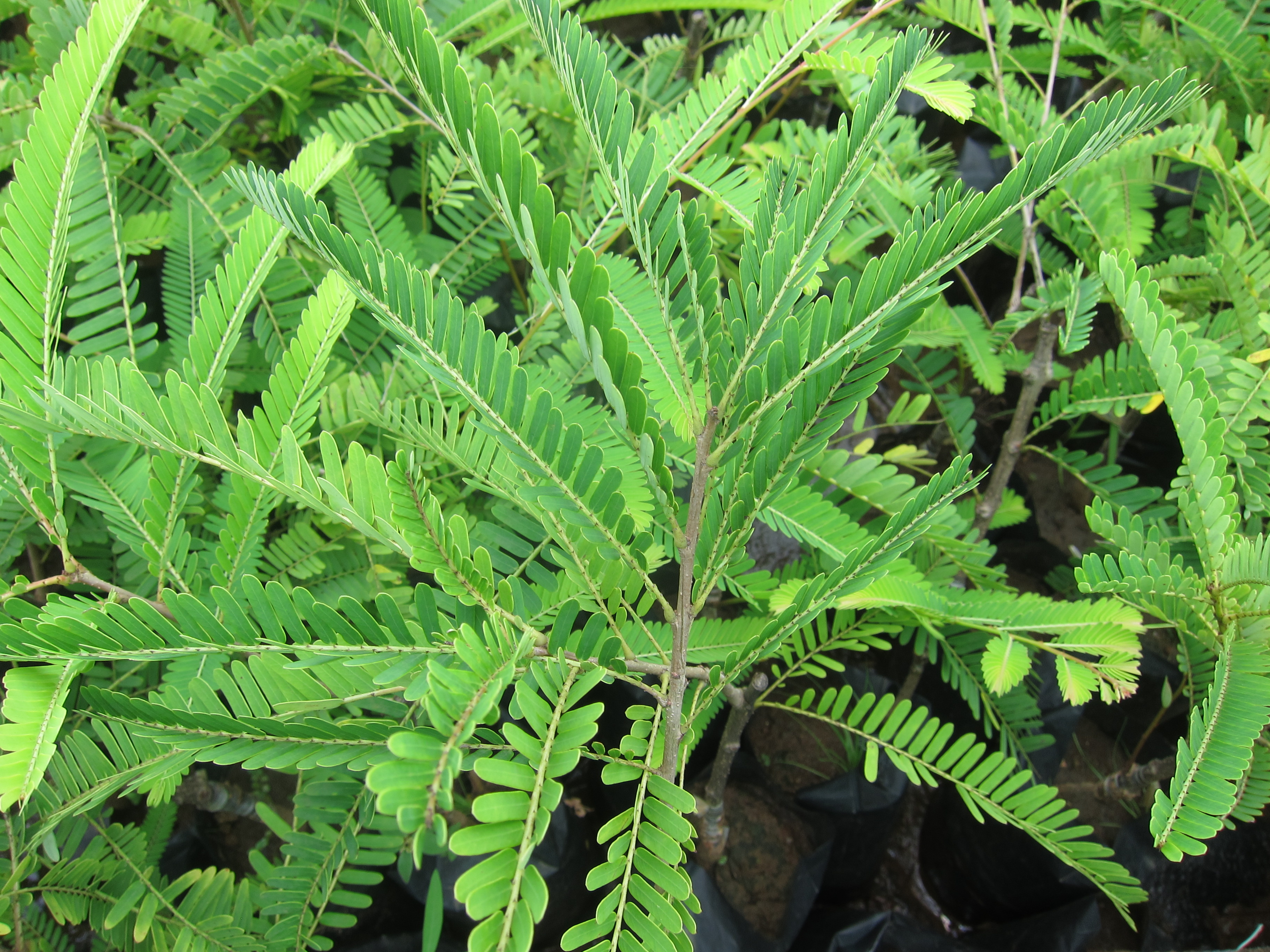 Indian Gooseberry - നെല്ലി